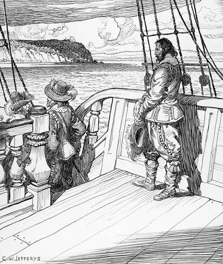 This image by Charles William Jefferys shows Samuel de Champlain leaving for England on Kirke's (spelled incorrectly in the original) ship after the fall of Quebec City in 1629.